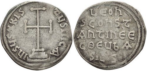 LEO III, the "Isaurian", and CONSTANTINE V. 720-741 AD. AR Miliaresion (21mm, 2.05 gm). Constantinople mint. Cross potent on three steps / Legend in five lines. DOC III 22; SB 1512. VF.